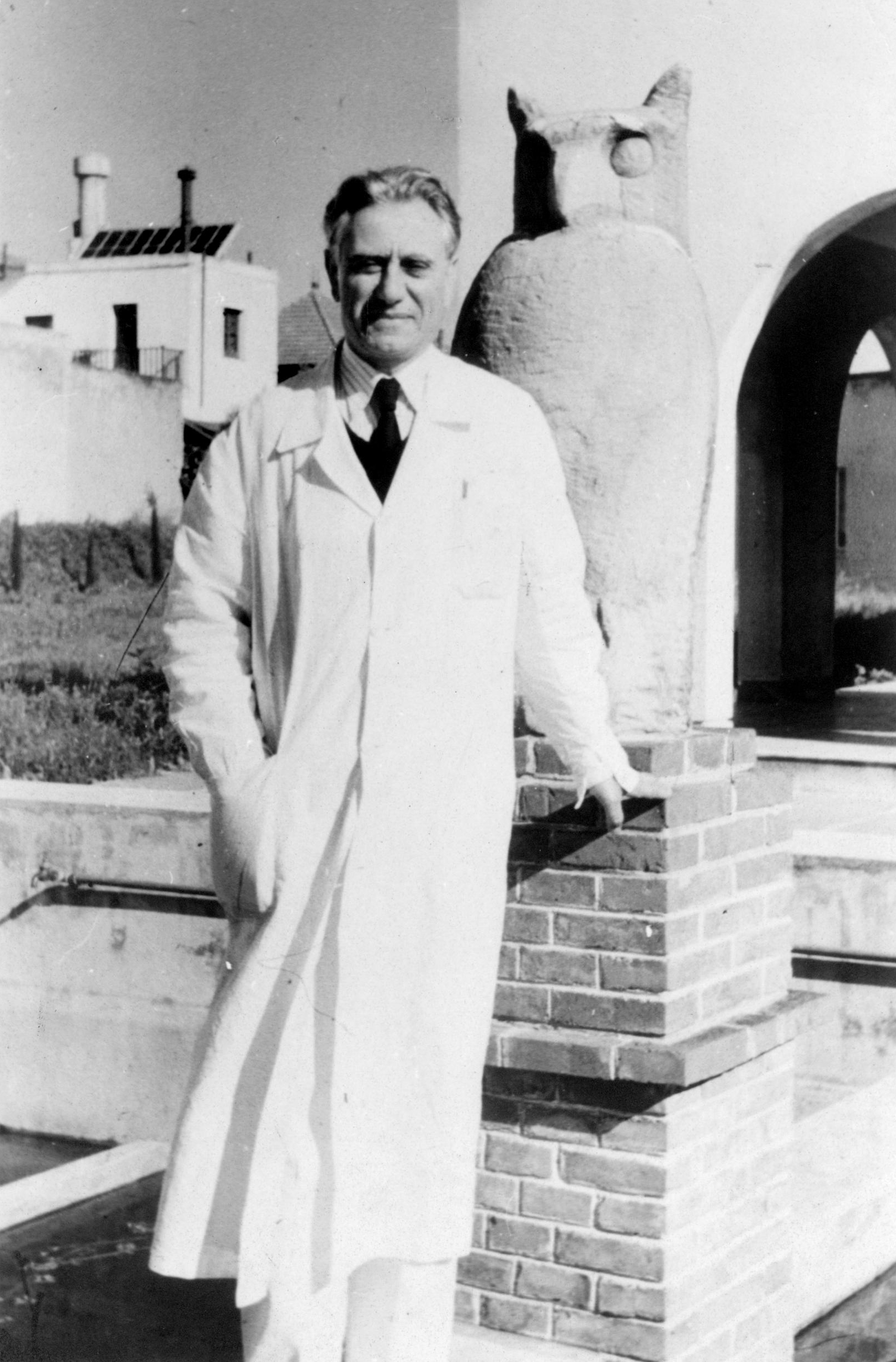 Picture of Prof. Clemente Estable, Montevideo, Uruguay.